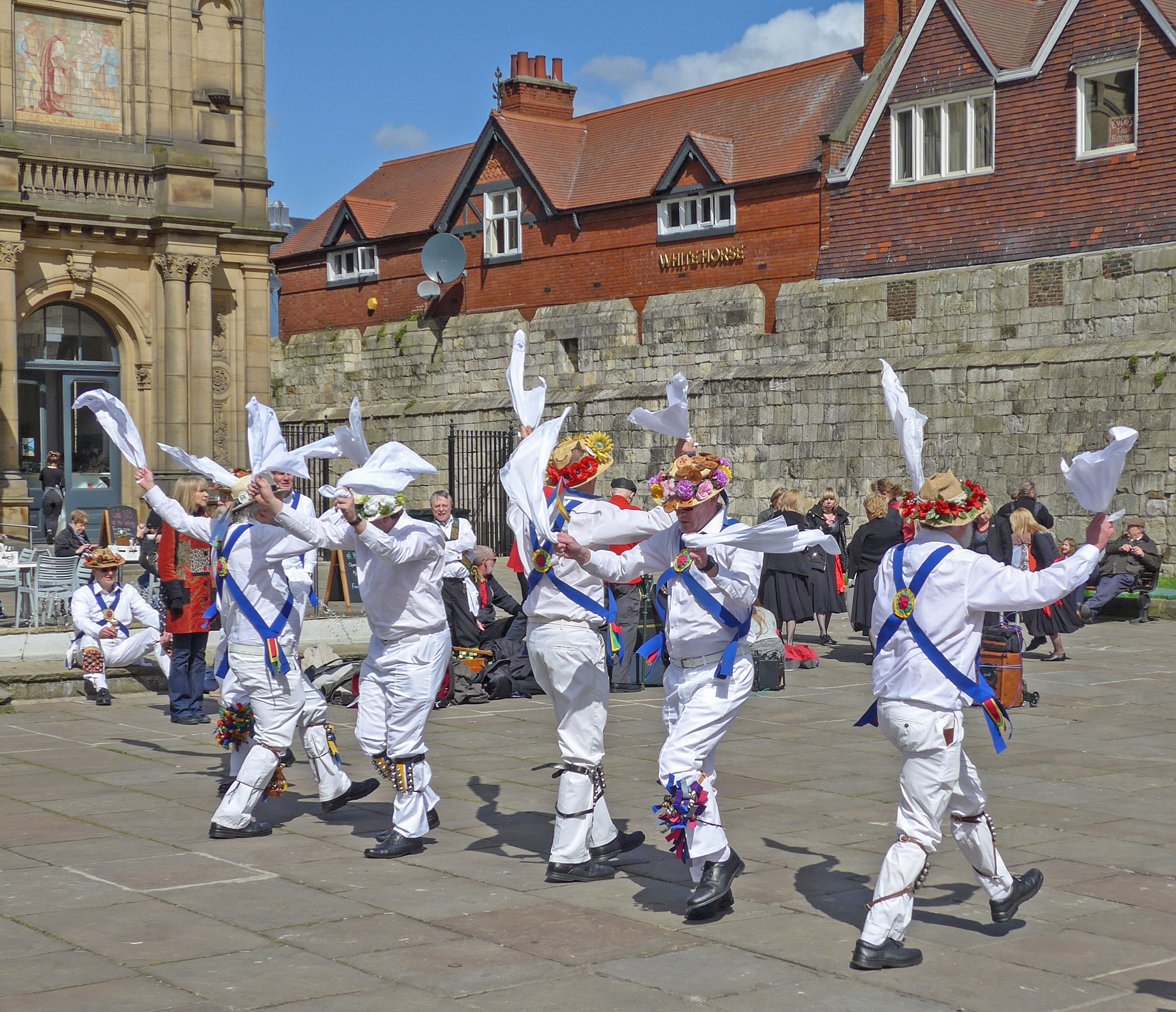 Joint Morris Organisation Day of Dance